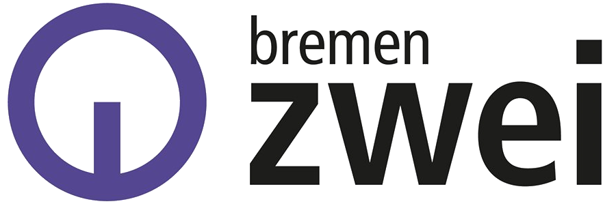 This is the new station logo of bremen zwei (2017) from on August 12th 2017.